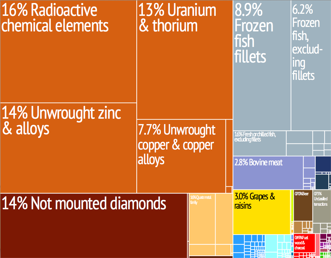 Export Trading Treemap. From MIT/Harvard Atlas of Economic Complexity